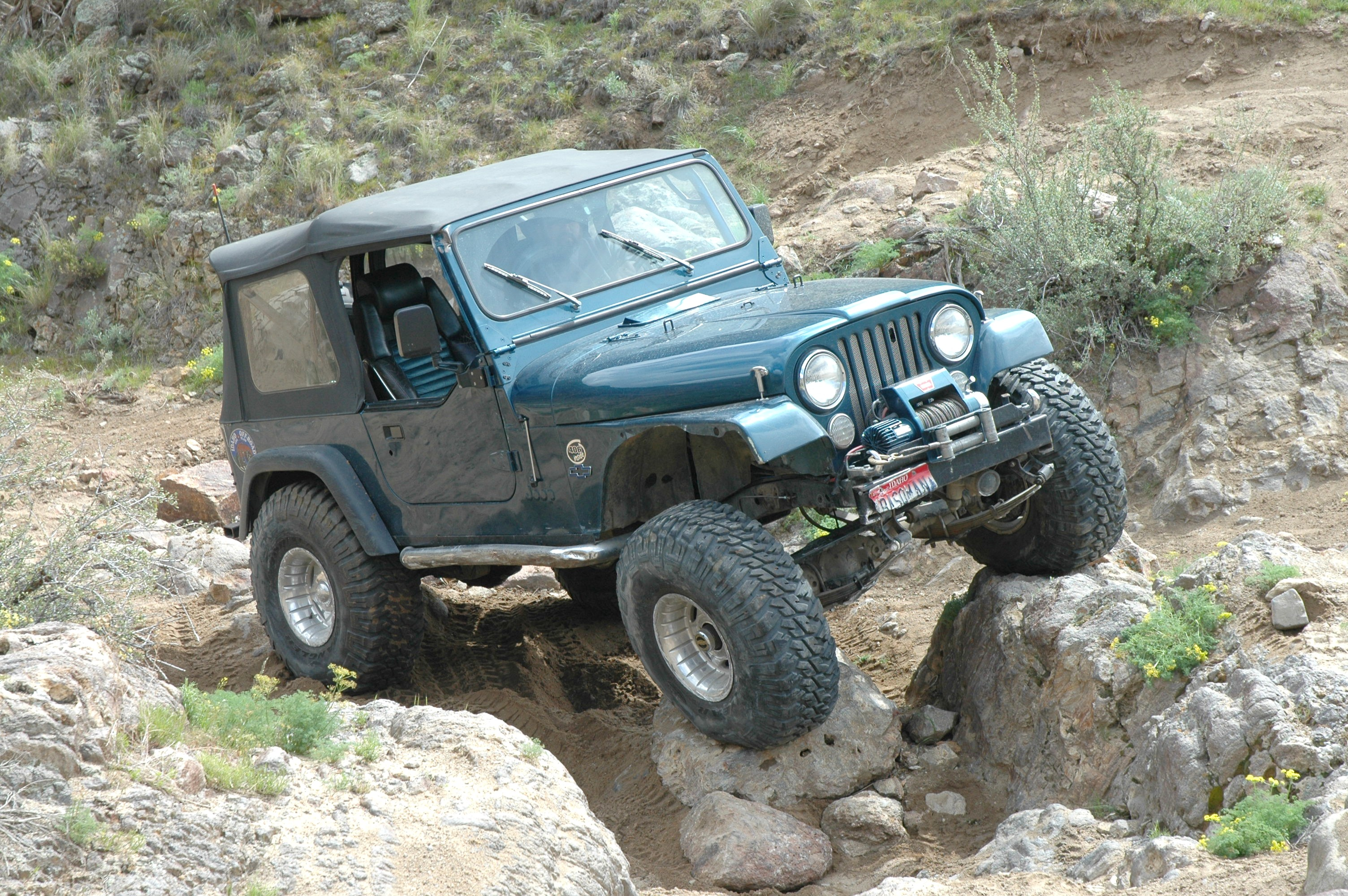 4x4 on the rocks